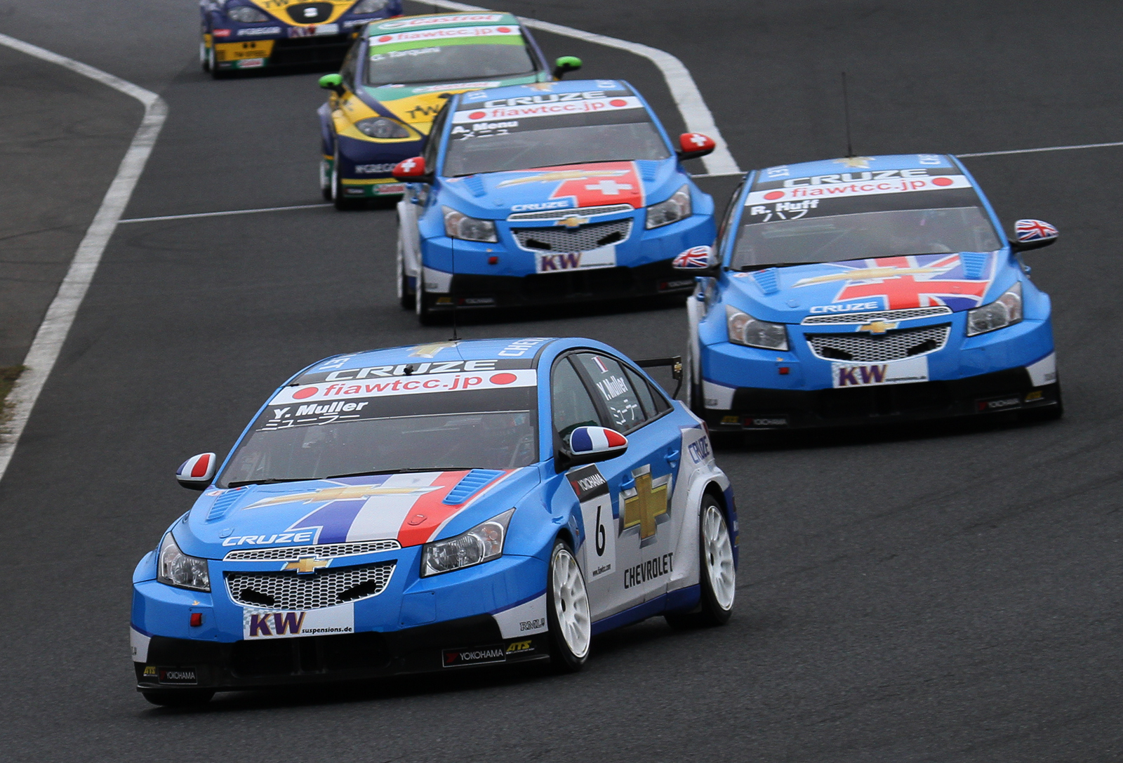 World Touring Car Championship 2010 Race of Japan: Chevrolet trio (Yvan Muller, Robert Huff, and Alain Menu) during the 1st qualify session on Saturday.